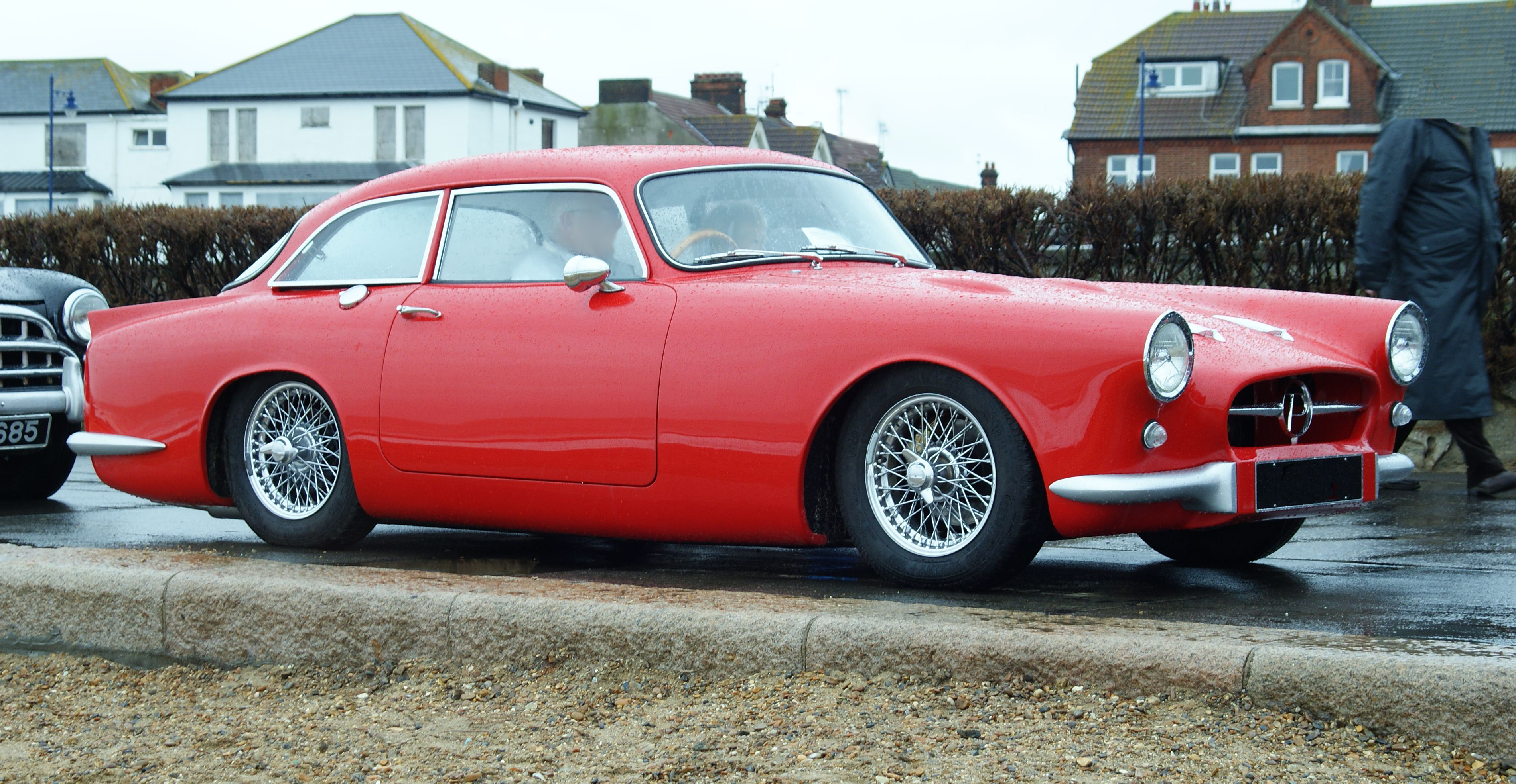 A 1958 Peerless, using Triumph TR3 running gear. 1991cc